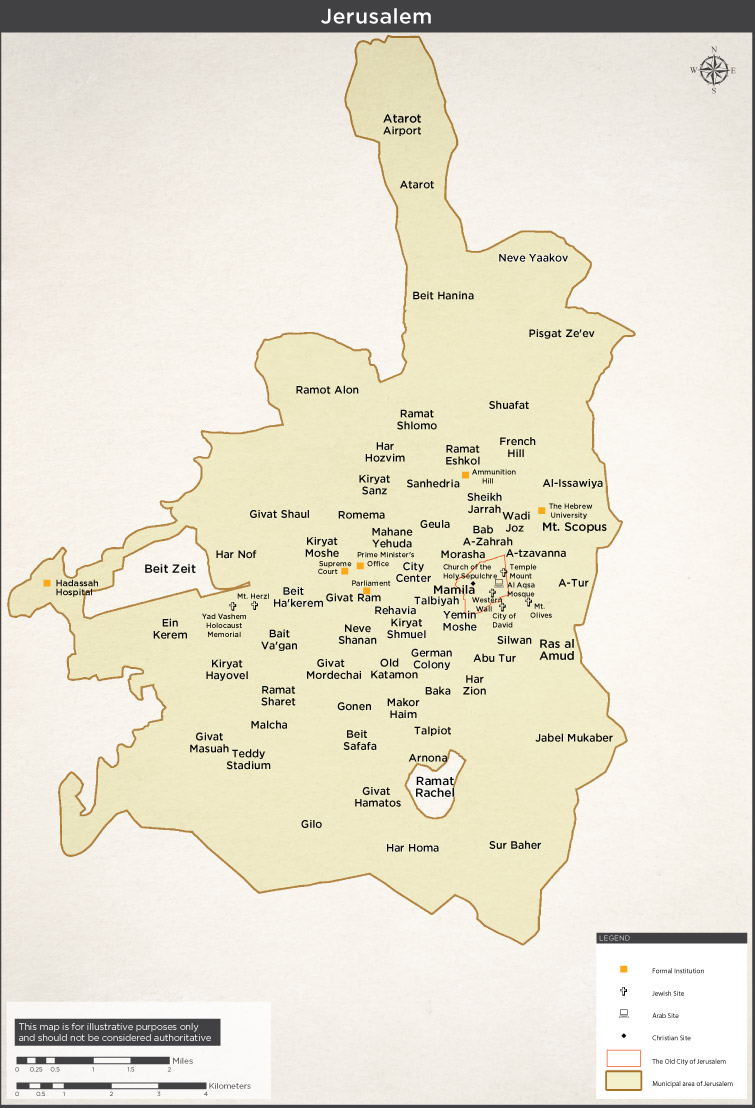 Jerusalem municipality area